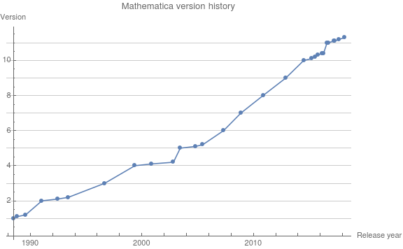 Mathematica version history, plotted using the data provided by the English article about the program, using Mathematica.